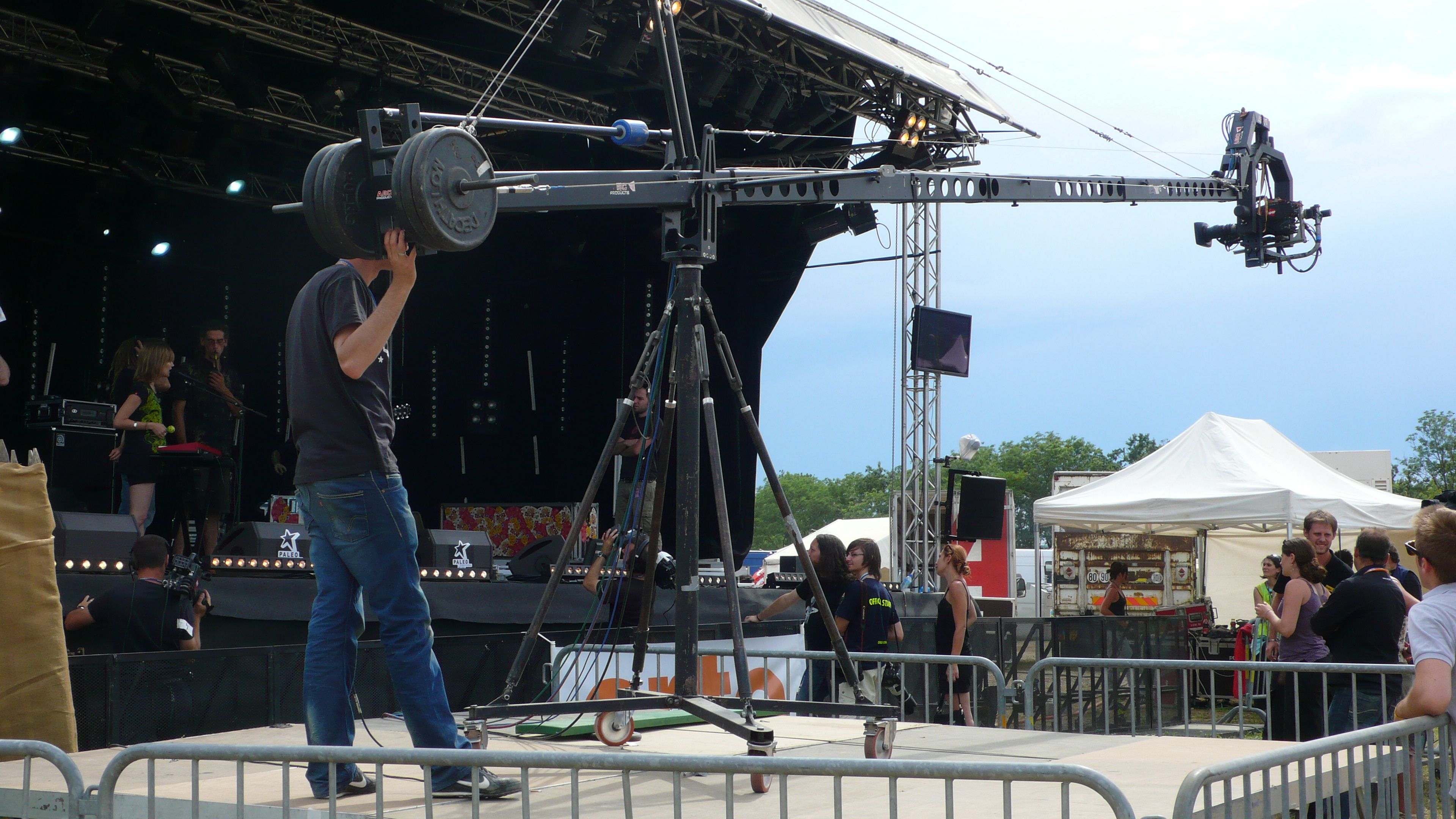 Crane for Arte at the Paleo 2008